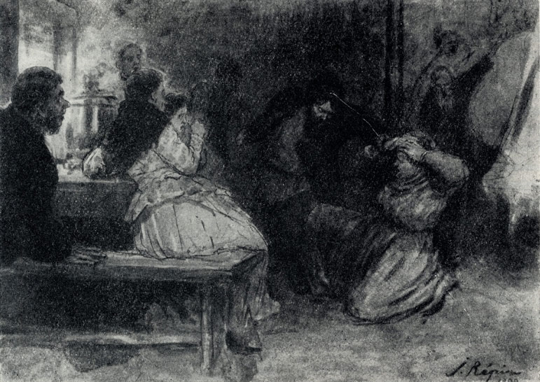 Chekhov's Peasants illustrated by Ilya Repin